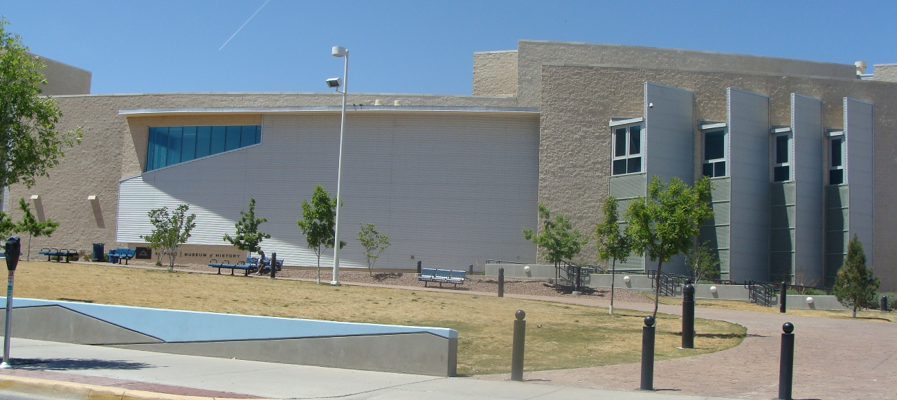 El Paso Museum of history, El Paso, Texas